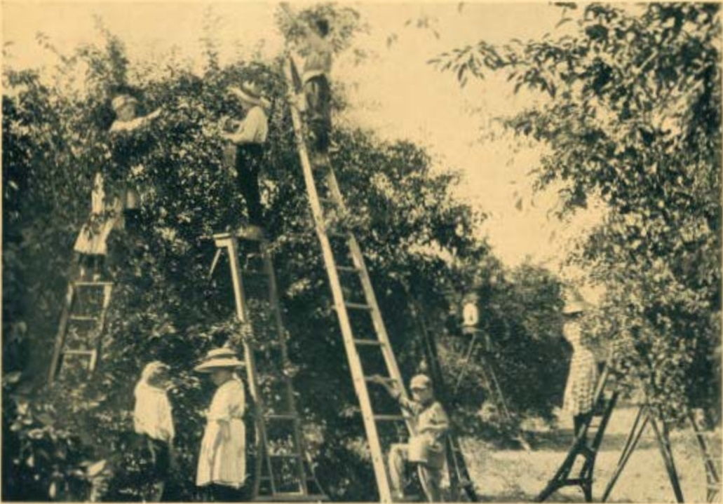 Children enjoy picking cherries in Door County orchards